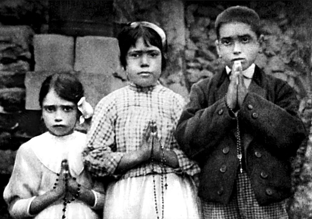 The three children of Fátima: Lúcia Santos (age 10, pictured in the middle) and her two cousins: Francisco (age 9) and Jacinta Marto (age 7) holding their rosaries.